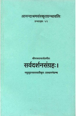 सर्वदर्शनसंग्रह